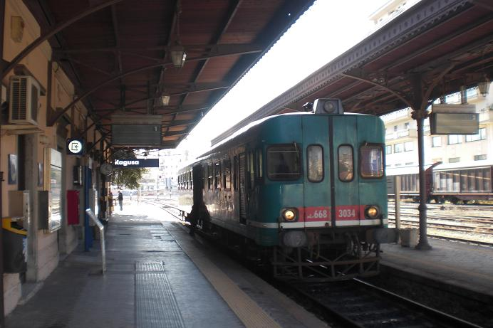 Train ALn 668.3034 at Ragusa station, Sicily.